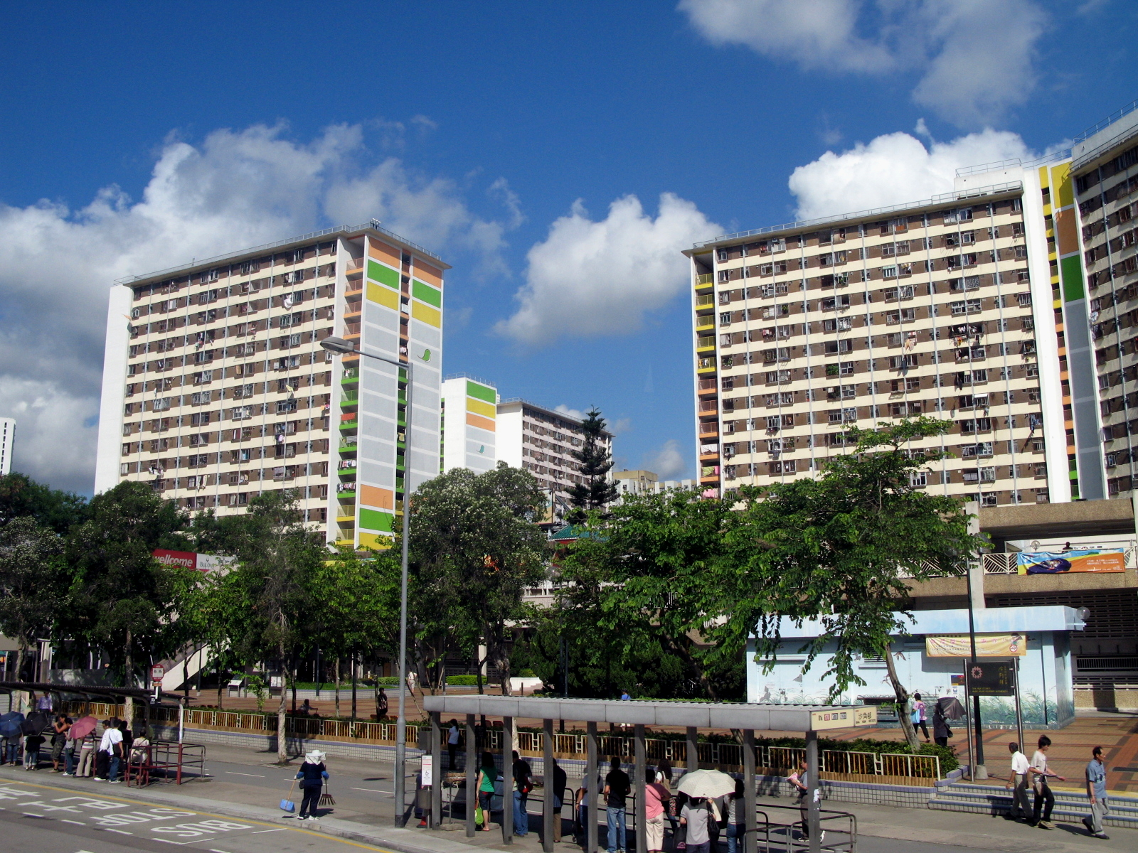 HK Shatin Sha Kok Estate